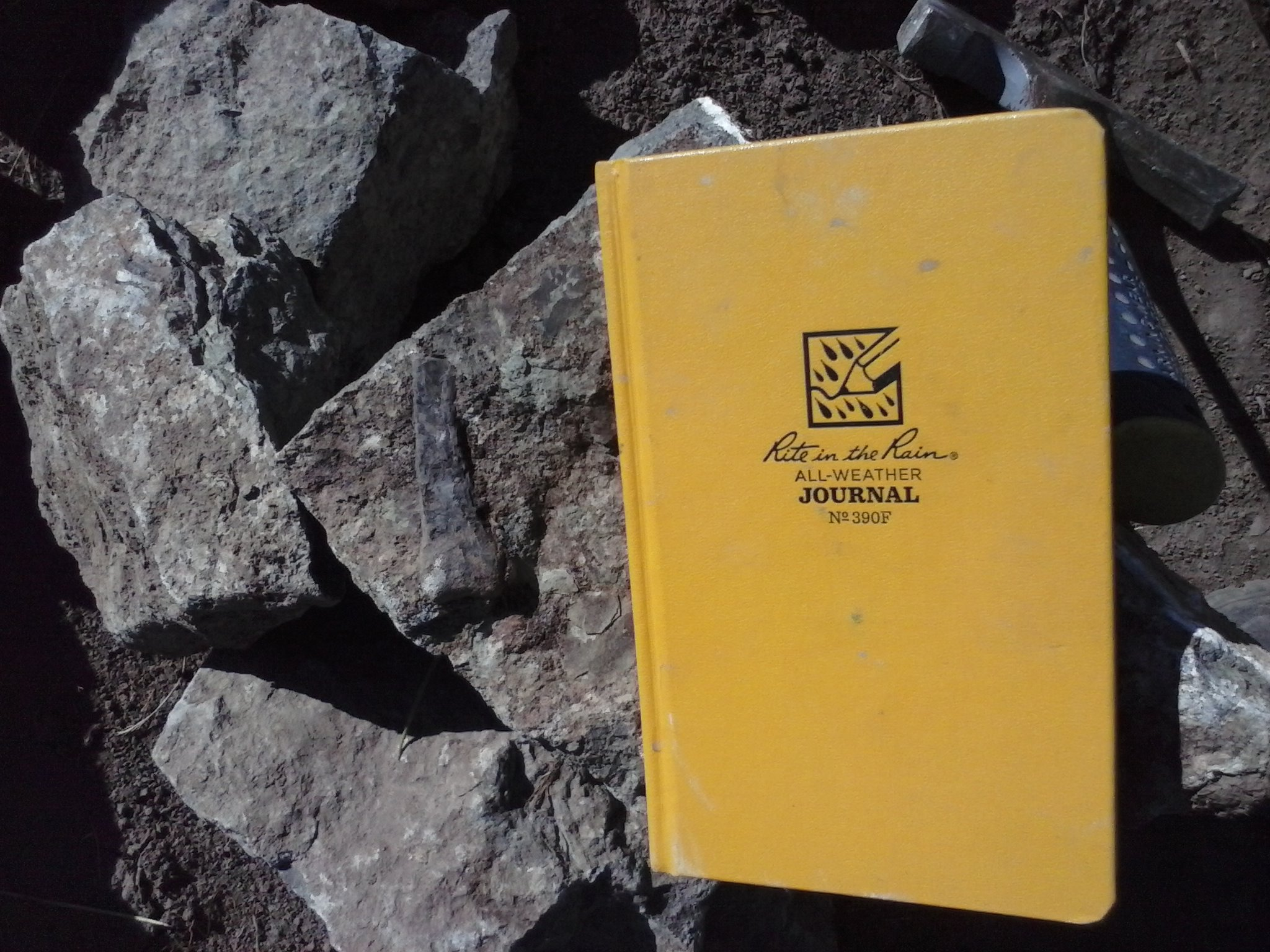 Self taken photo of Oryctodromeus metatarsal in situ